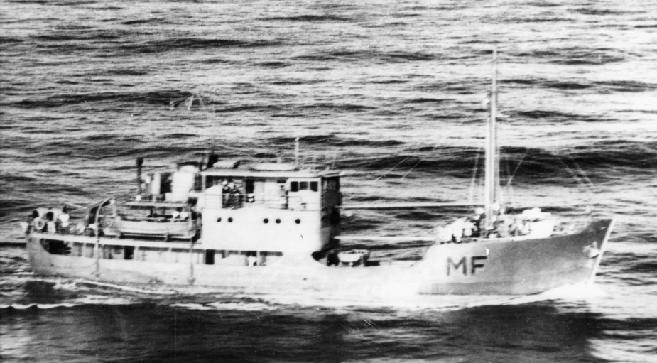 Matafele as she appeared when she was last seen, 1944